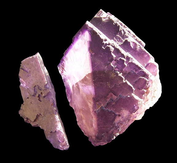 Fluorite, with a perfect cleavage on [1,1,1]